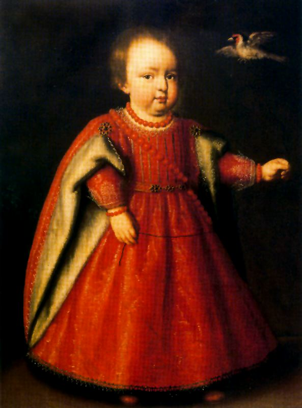 Portrait of Anna Camilla Barberini (1629-1631)